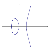 Graph of an elliptic curve